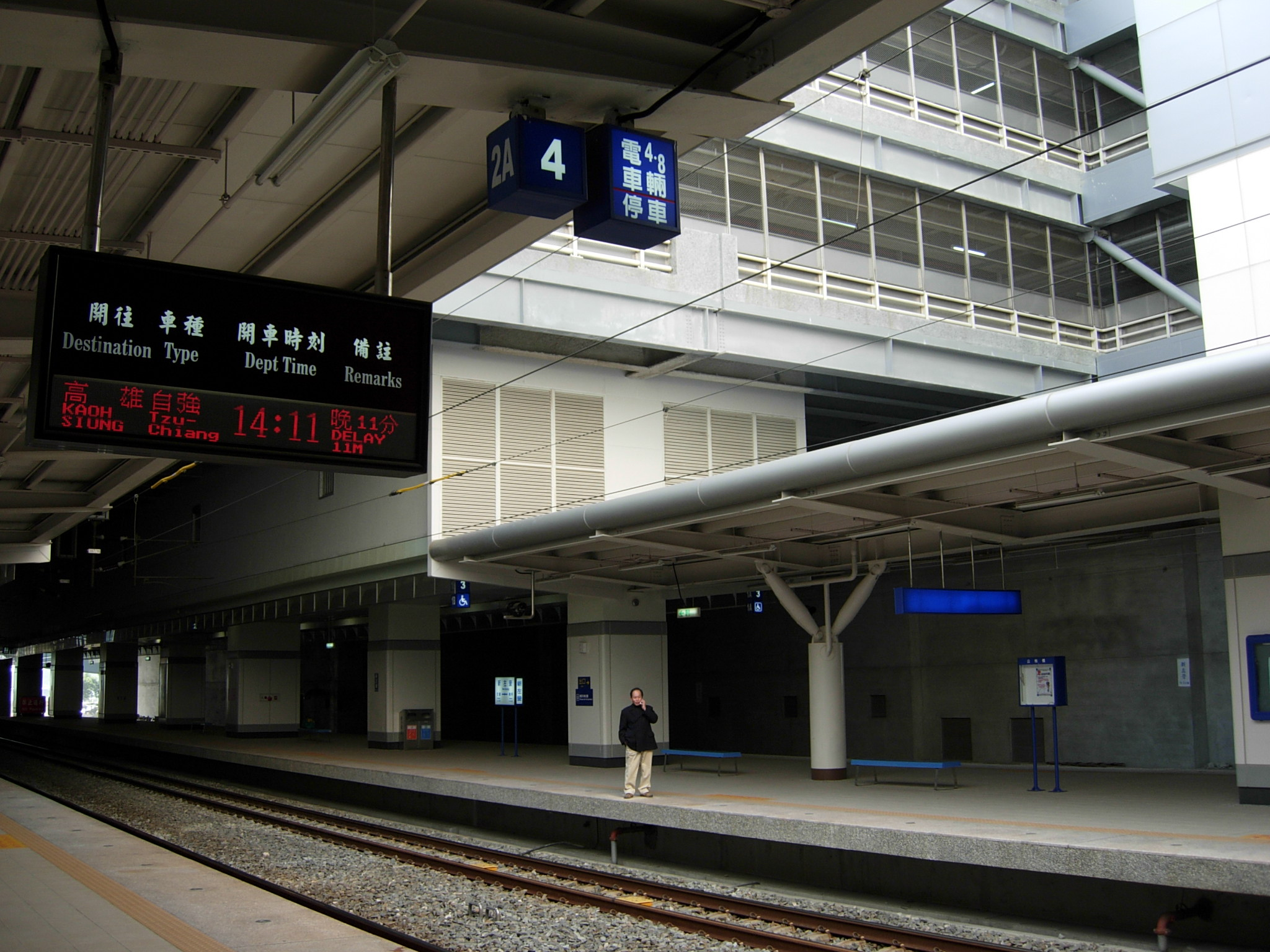 TRA New Zuoying Station Platform Area